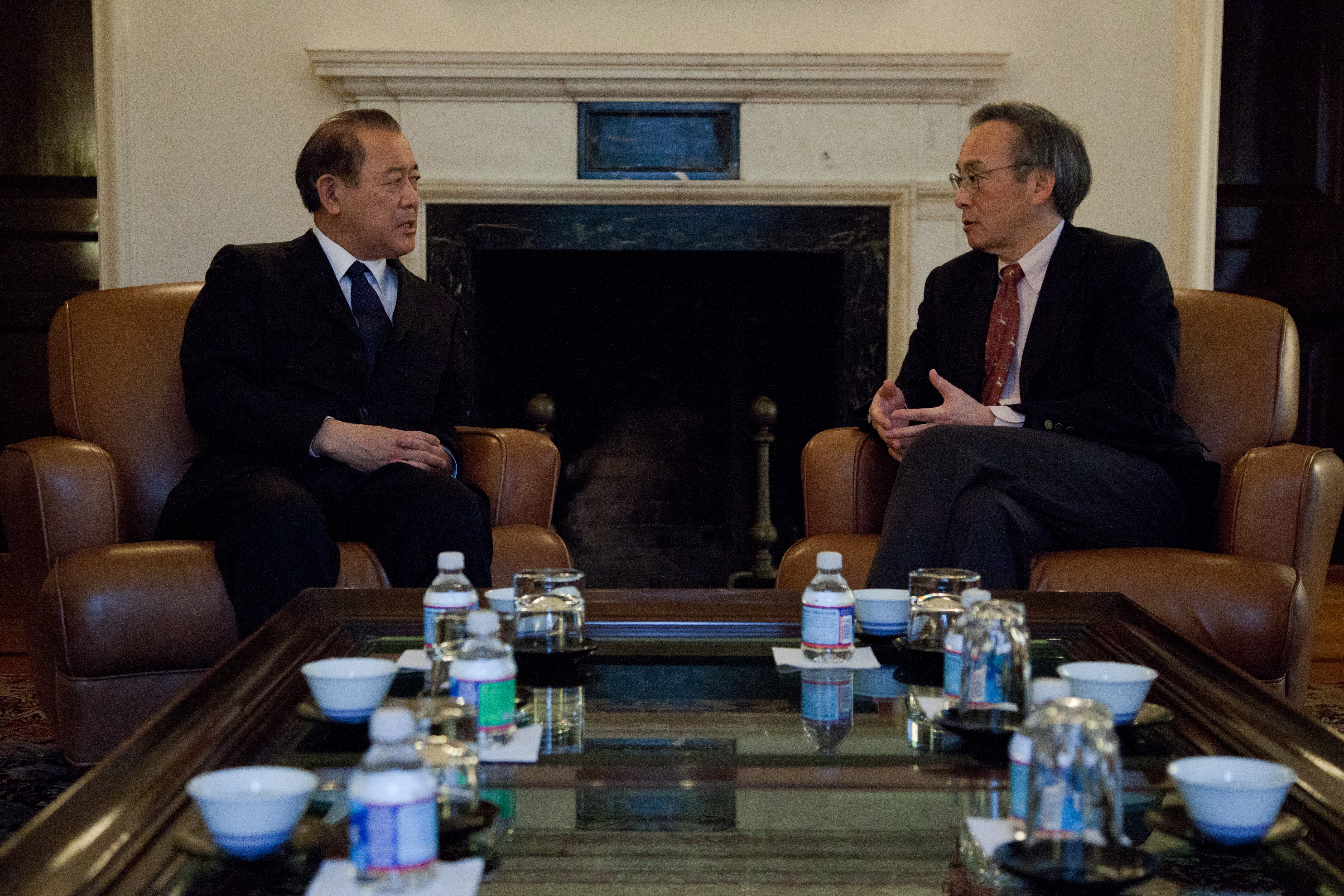 Sec. Steven Chu meets with Japanese Ambassador to the United States, Ichiro Fujisaki. (DOE: Quentin Kruger)